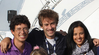 described as 'Meeting cast from BBC bang goes the theory, great people!!'. Cropped. Yan Wong, Dallas Campbell & Liz Bonnin.